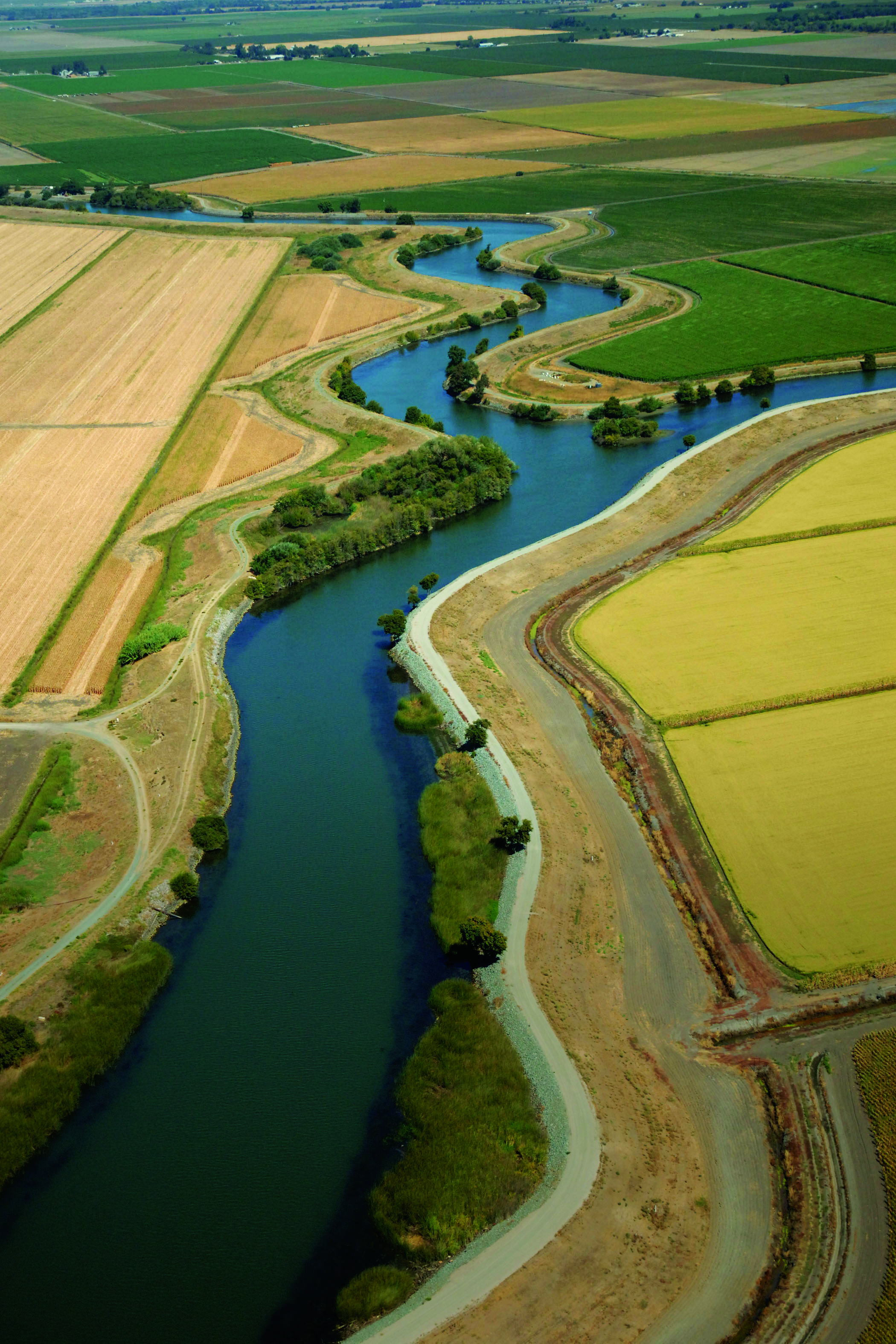 Bay-Delta Estuary in good shape on a beautiful day.